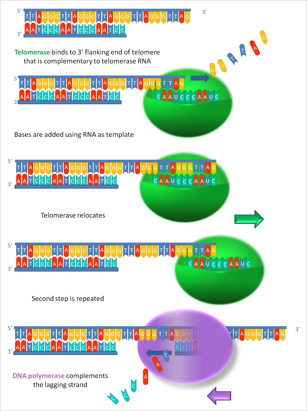 An image showing how telomerase elongates telomeric DNA progressively